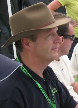 Eric van de Poele during the autograph session at the 2008 Rolex Sports Car Series event at Mexico City.